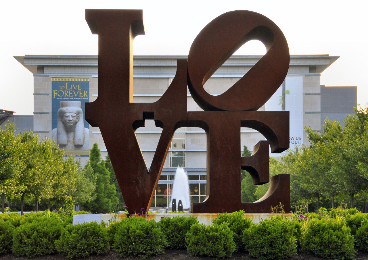 Usually Robert Indiana Love Sculpture is RED. In Indiana, the color appears to be... rusty. More about the artist